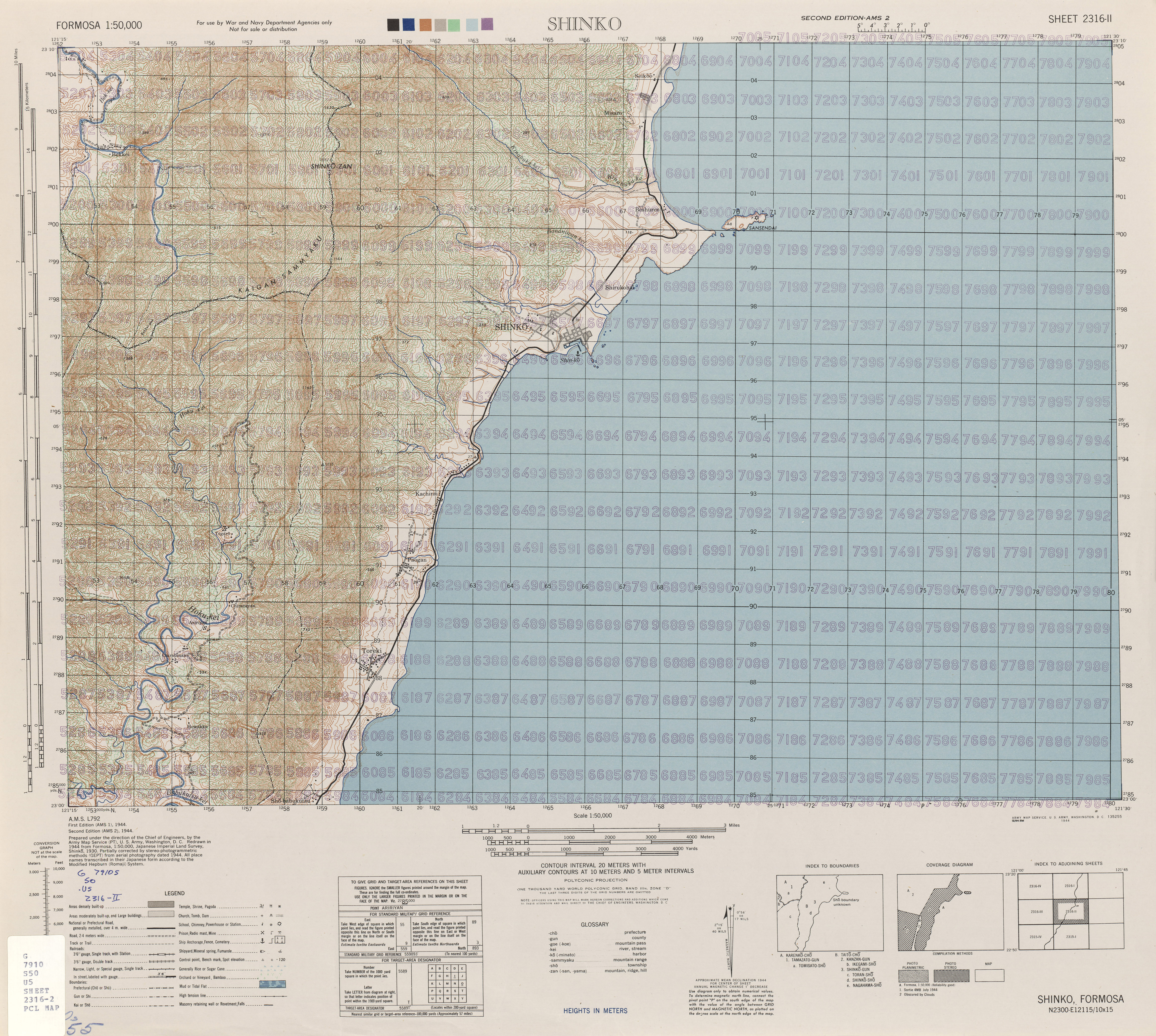 Map from Formosa (Taiwan) 1:50,000 AMS Series L792